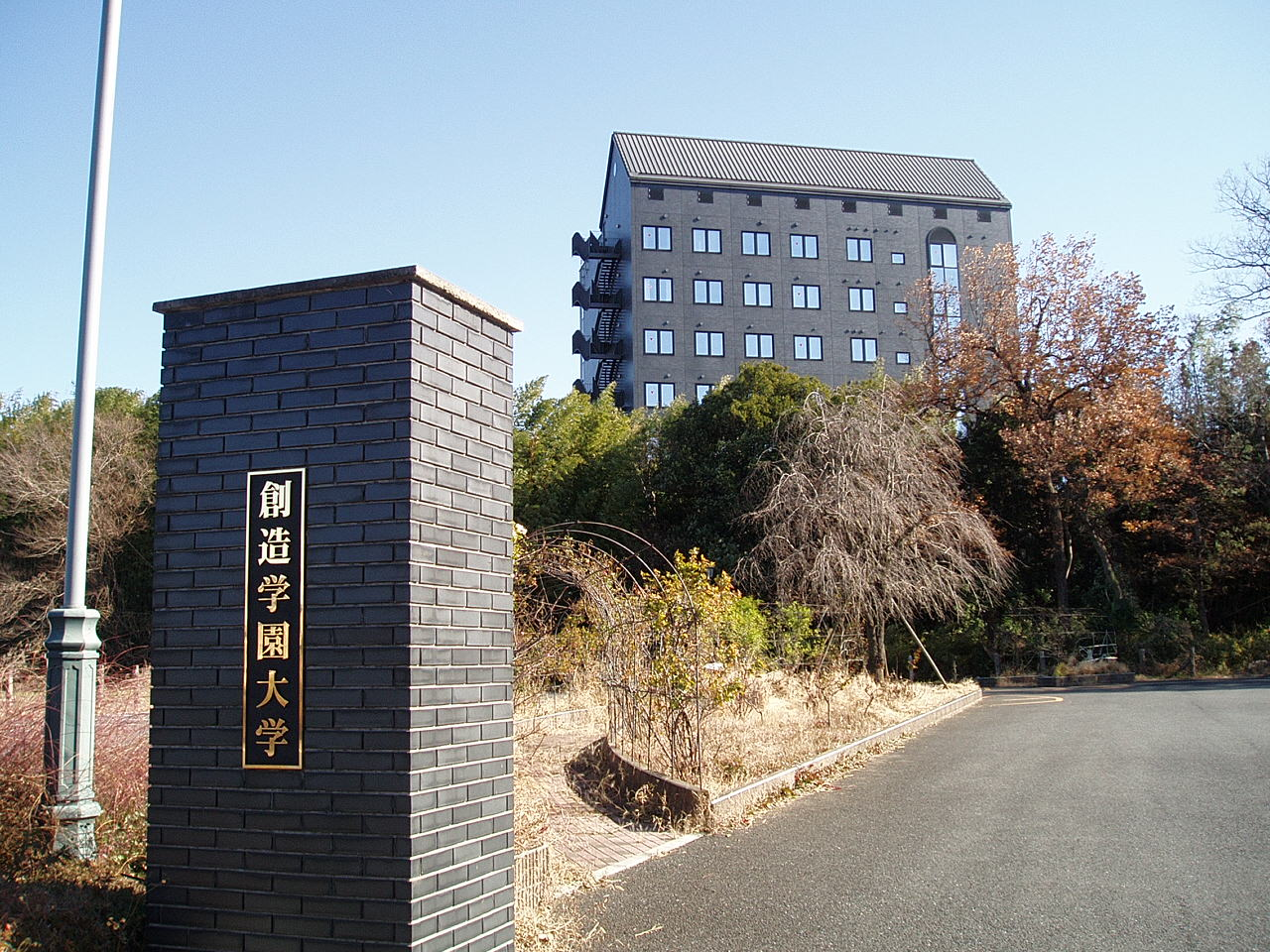 The main entrance to Shimotaki Campus, the University of Creation; Art, Music & Social Work (Souzou Gakuen University), located in Shimotakimachi, Takasaki, Gunma, Japan.